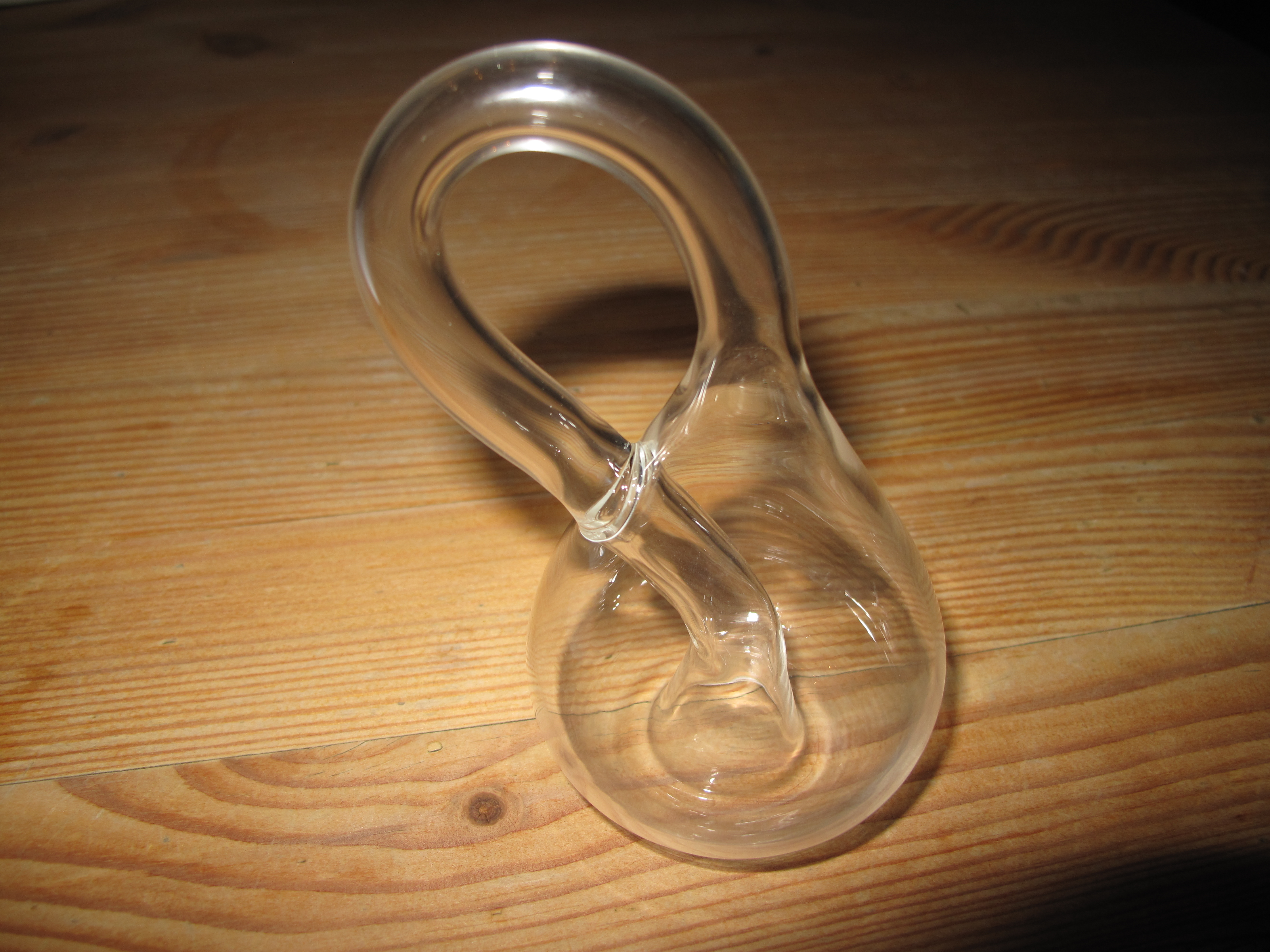 This bottle was bought from Cliff Stoll - Acme Klein Bottle, Oakland, CA for USD 46 (shipping, handling, box and scotch tape included). The tracking service for this item was EXCELLENT.